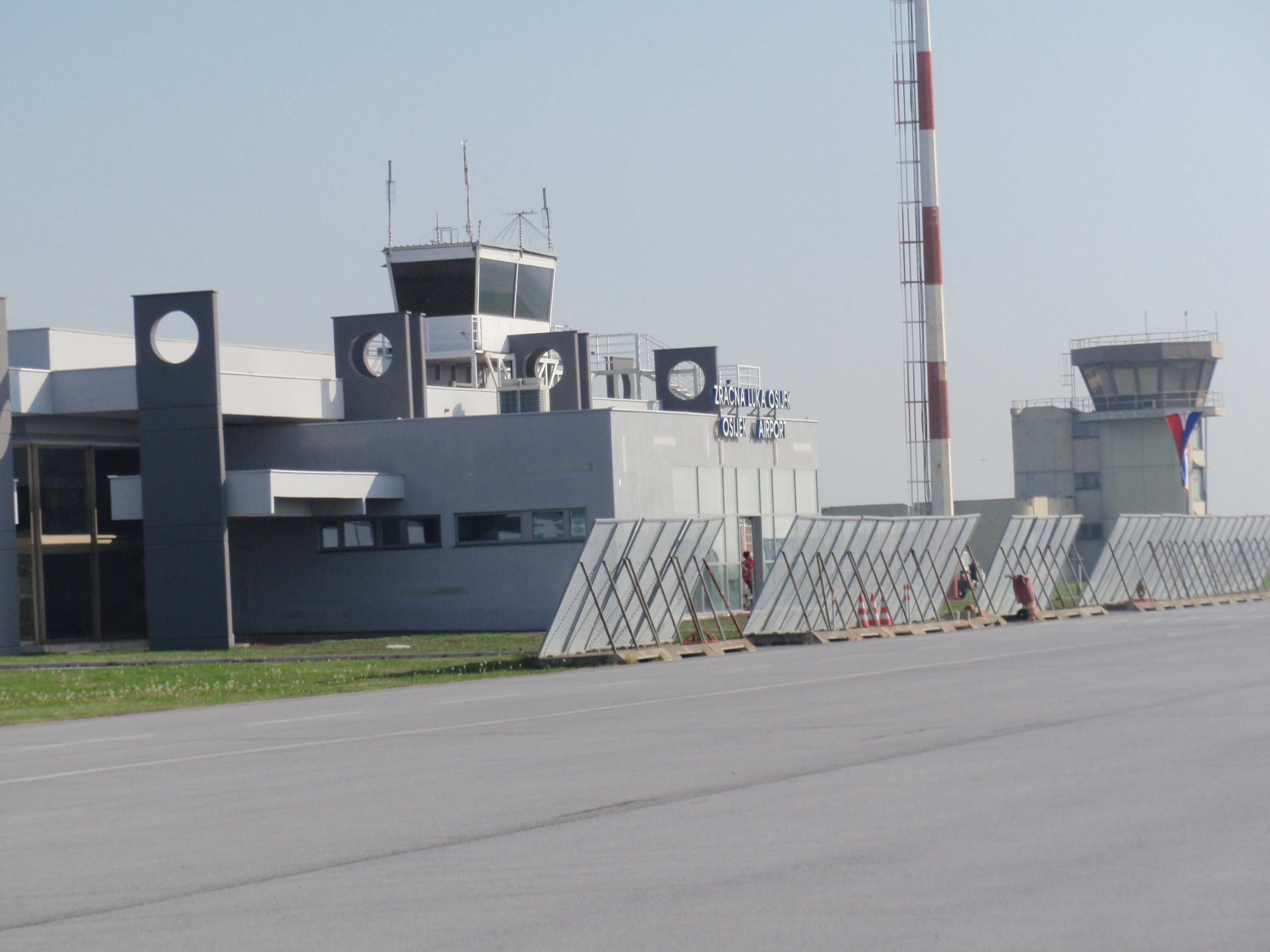 Osijek Airport (Klisa), CroatiaHrvatski: Zračna luka Osijek.